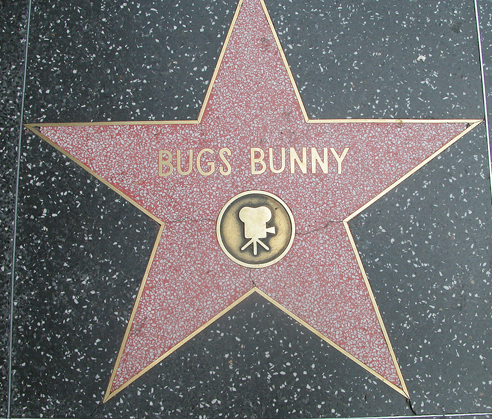 Bugs Bunny's star on the Hollywood Walk of Fame, Los Angeles (California)